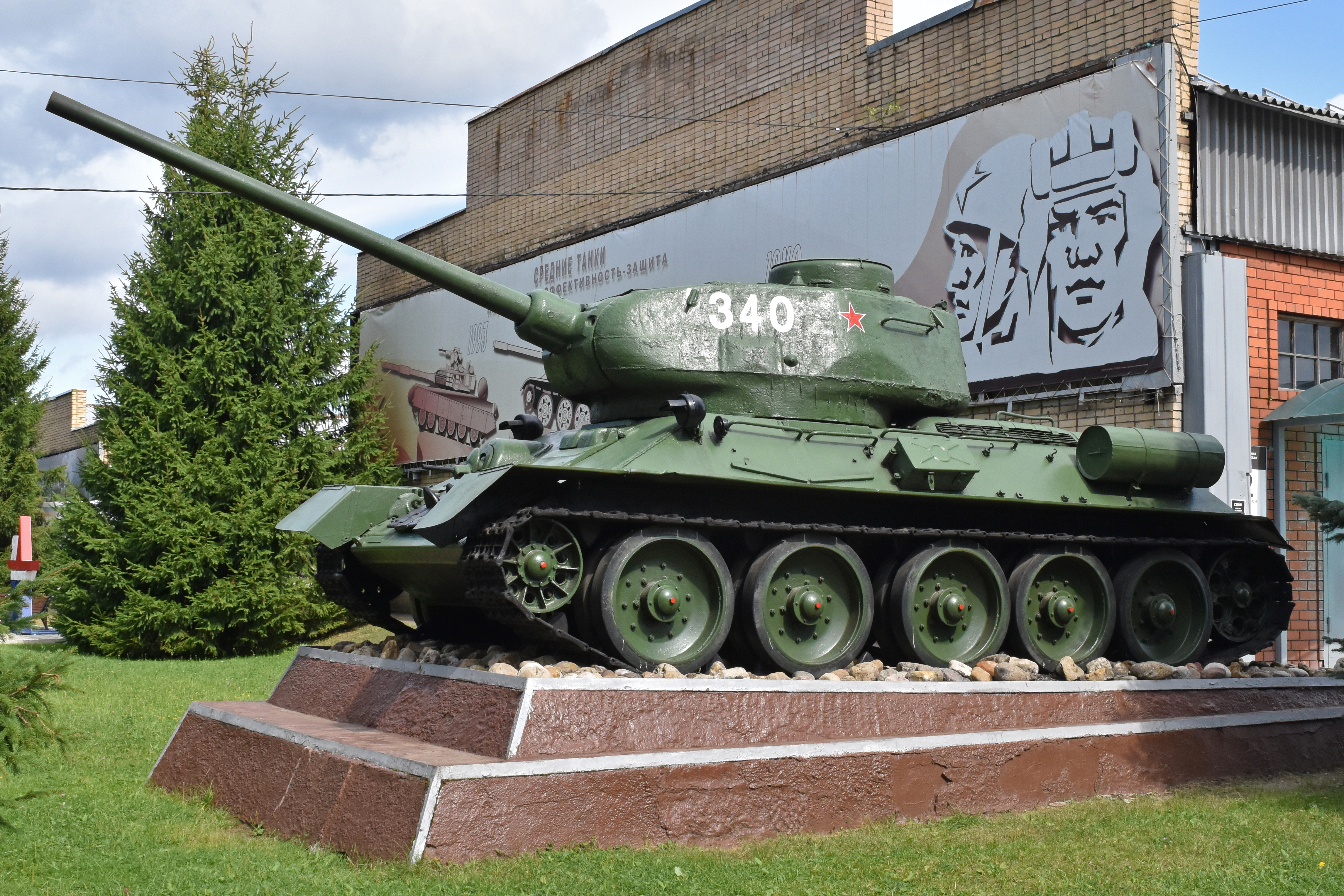 Soviet WW2 era Medium Tank Total production (T-34/85):- 48,950 Main Armament:- 85mm ZiS-S-53 gun This is possibly a Model 1945, as I think it has the larger commanders cupola introduced with that model. On display outside at what is known as the Kubinka Tank Museum, although it is now officially titled Area 2 of the Park Patriot Museum. Kubinka, Moscow Oblast, Russia. 24th August 2017